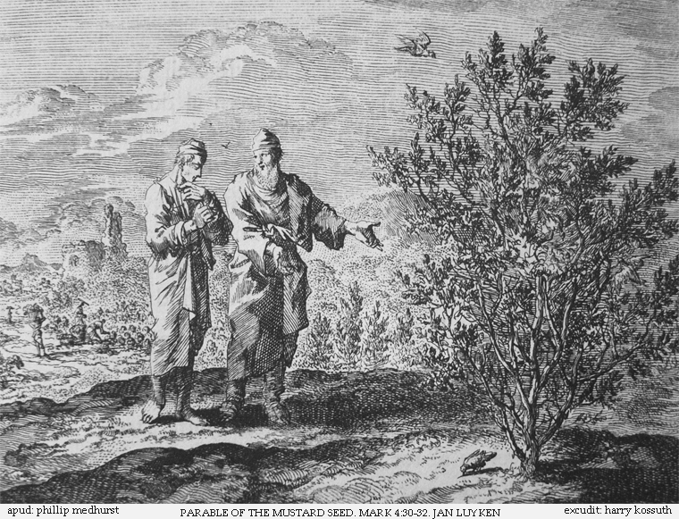 An etching by Jan Luyken illustrating Mark 4:30-32 in the Bowyer Bible, Bolton, England.